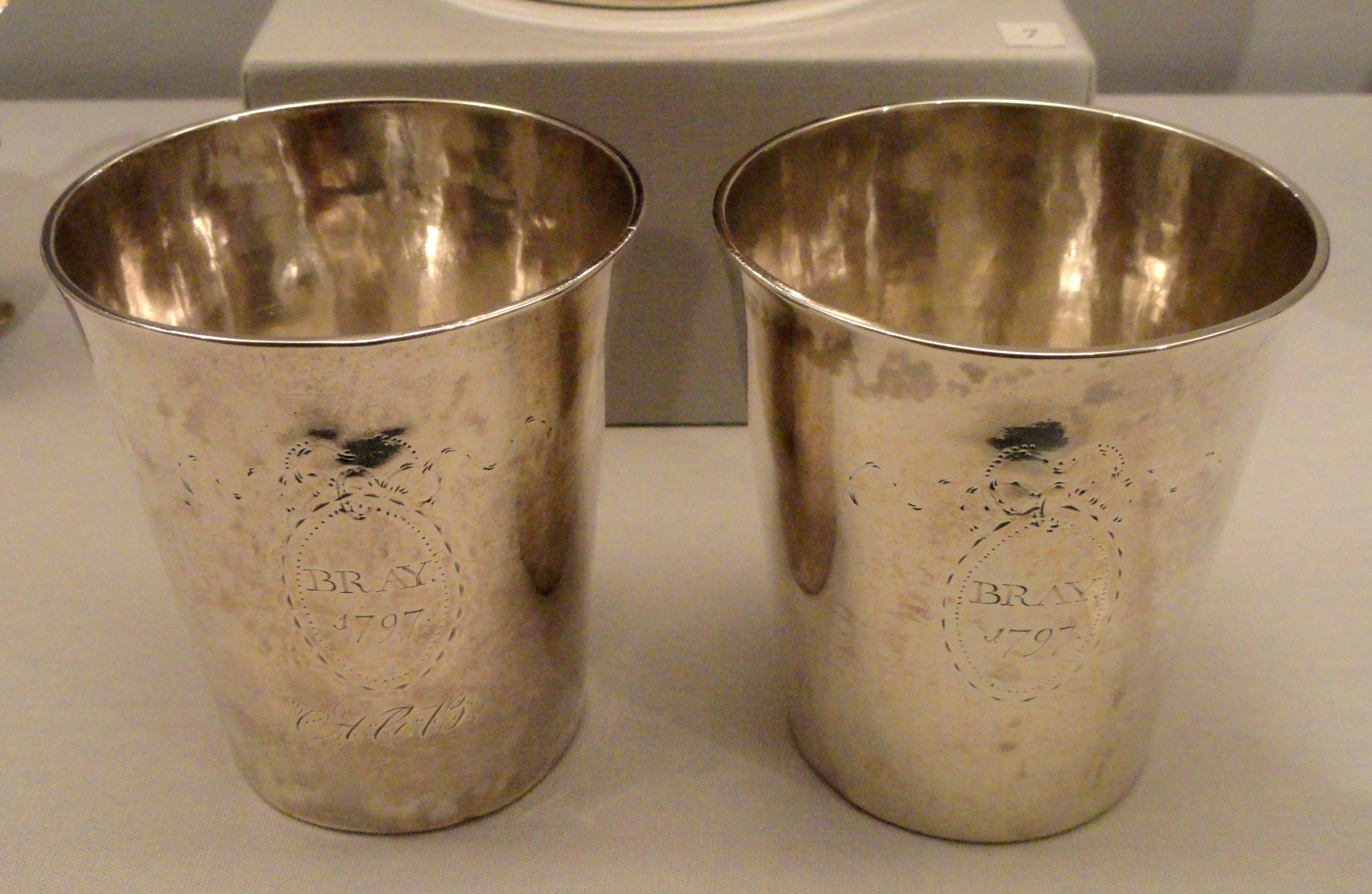 Pair of beakers, Benjamin Burt, Boston, 1797, silver - Hood Museum of Art, Dartmouth College, Hanover, New Hampshire, USA. This work is in the public domain because the artist died more than 70 years ago.